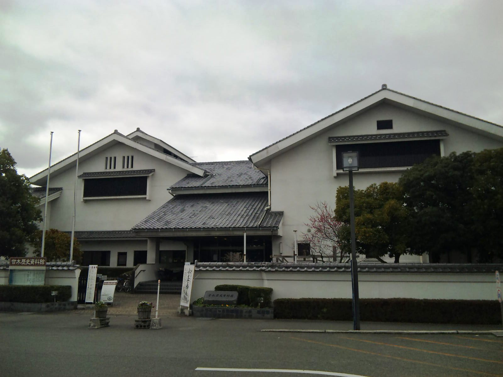 Amagi Histrical Museum, Asakura, Fukuoka, Japan.